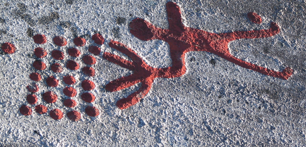 29 balls, depth of carvings clearly visible in flat evening sunlight, at Rock Carvings in Tanum